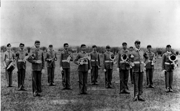 This image was taken in 1894 before the first football game and came from the Texas A&M Archives. Justification: Image was first published before 1923.